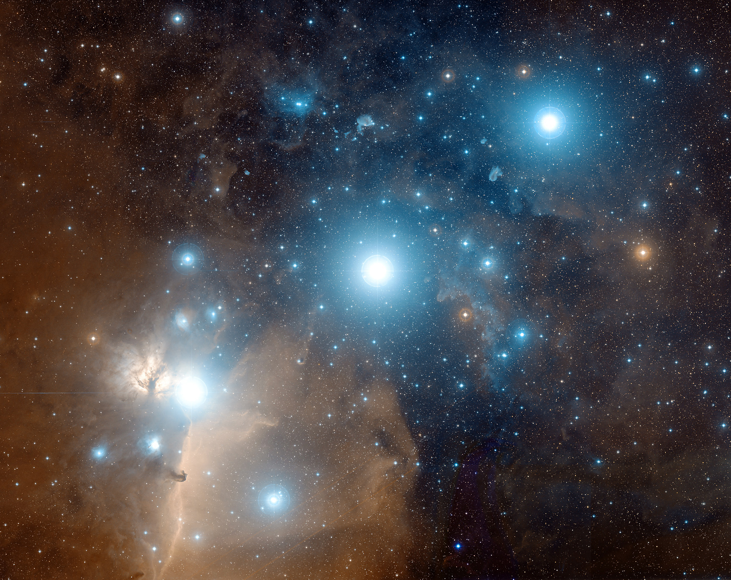 Photo of Orion Belt with the stars Alnitak, Alnilam and Mintaka. The color picture was composited from digitized black and white photographic plates recorded through red and blue astronomical filters, with a computer synthesized green channel. The plates were taken using the Samuel Oschin Telescope, a wide-field survey instrument at Palomar Observatory, between 1987 and 1991.